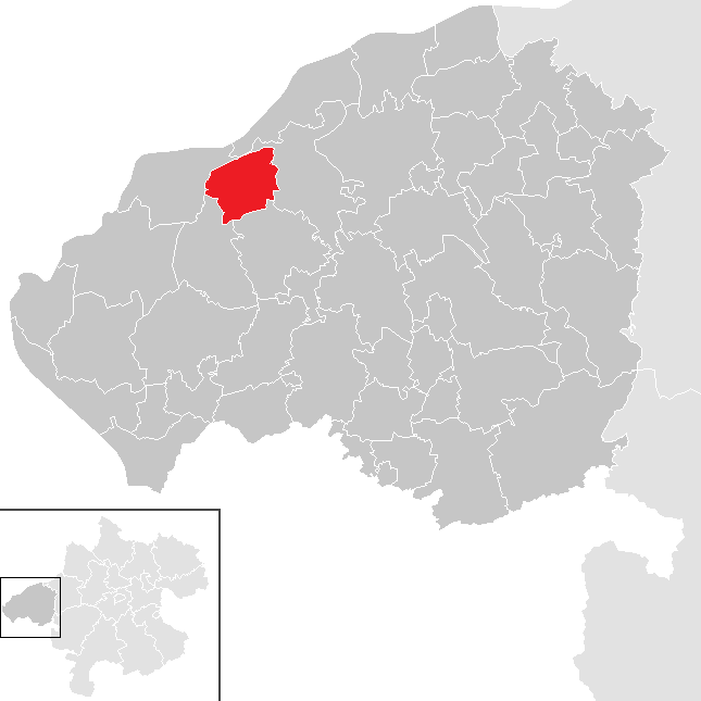 district Braunau am Inn